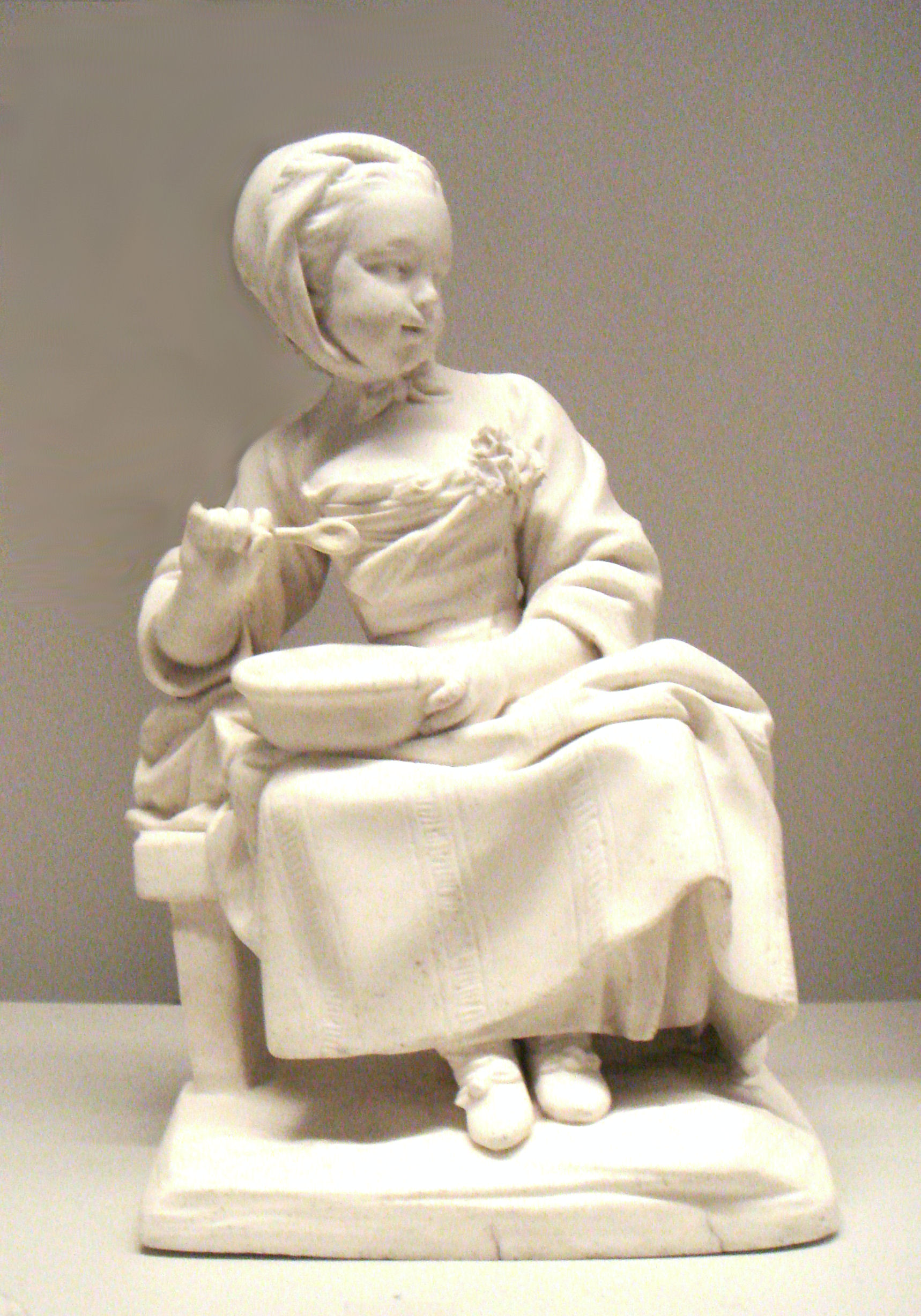 Buiscuit de porcelaine tendre, Vincennes manufactory, 19 × 13.1 × 9.2 cm (7.4 × 5.1 × 3.6 ″) Inventory number 11275 [1]